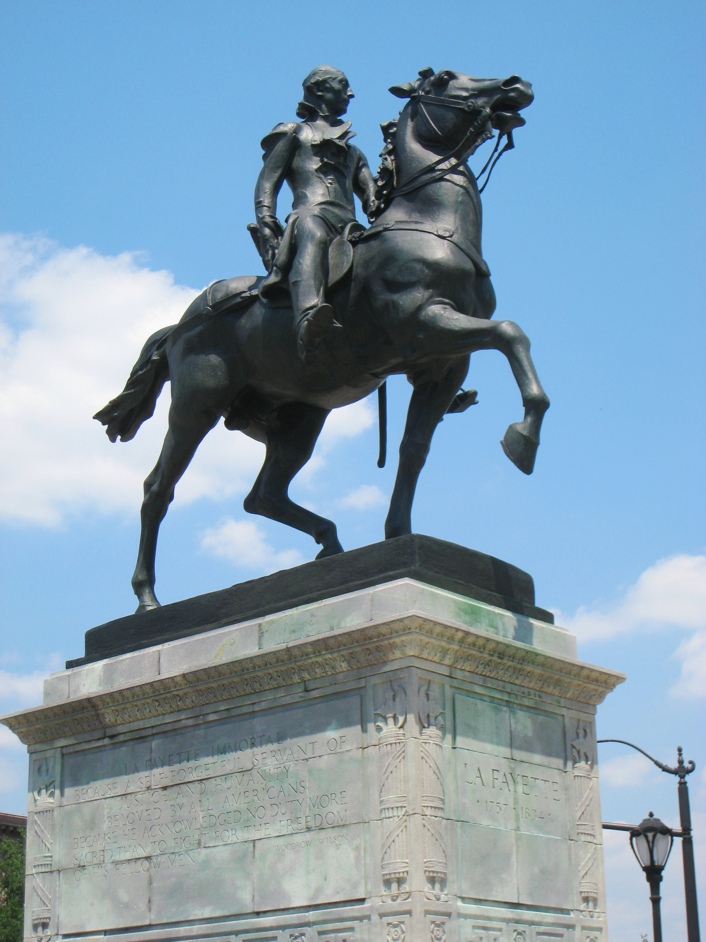 Lafayette statue, Mount Vernon Place, Baltimore, Maryland, USA. Sculptor Andrew O'Connor; dedicated 1924.